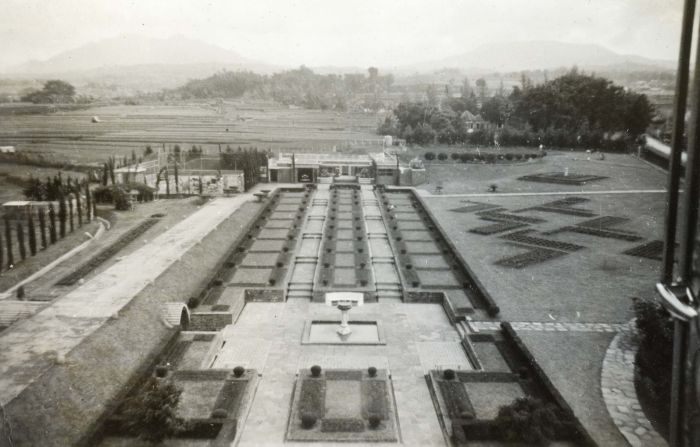 The gardens of Villa Isola, Bandung